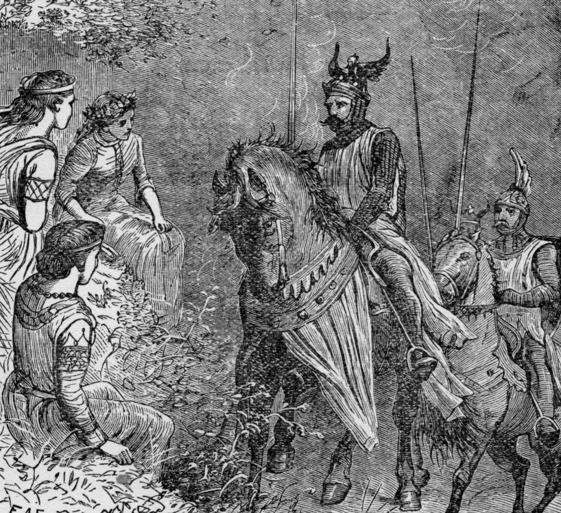 F. A. Fraser's illustration for King Arthur and His Knights of the Round Table by Henry Frith.